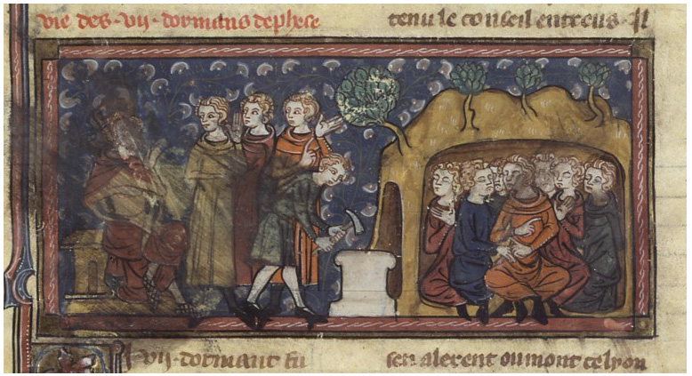 Roman emperor Decius ordering to seal the cave of the Seven Sleepers in 250 AD. From a copy of Legenda Aurea, Paris, XIVth, by Jeanne and Richard de Montbaston.